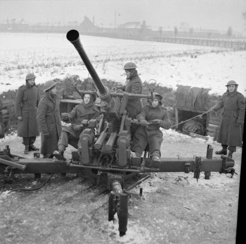 The British Army in the United Kingdom 1939-45 Bofors anti-aircraft gun of 117th LAA (Light Anti-Aircraft) Regiment at Billingham, County Durham, 21 January 1942.